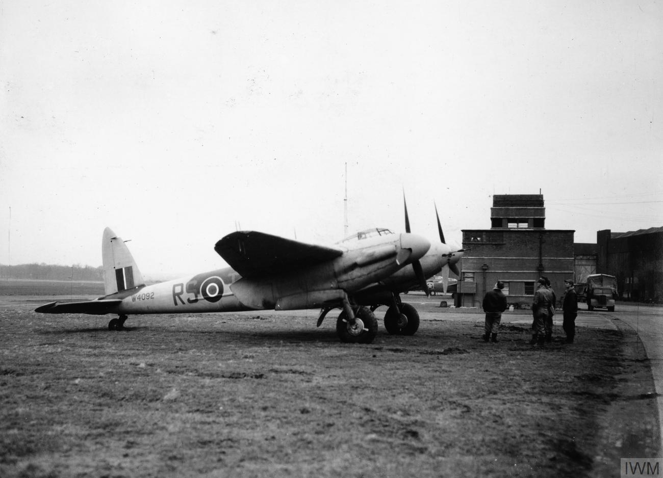 de Havilland Mosquito NF Mark II, W4092 'RS-T', of No. 157 Squadron RAF based at Predannack, Cornwall, is inspected by American airmen while visiting the 8th USAAF base at Bassingbourn, Cambridgeshire.